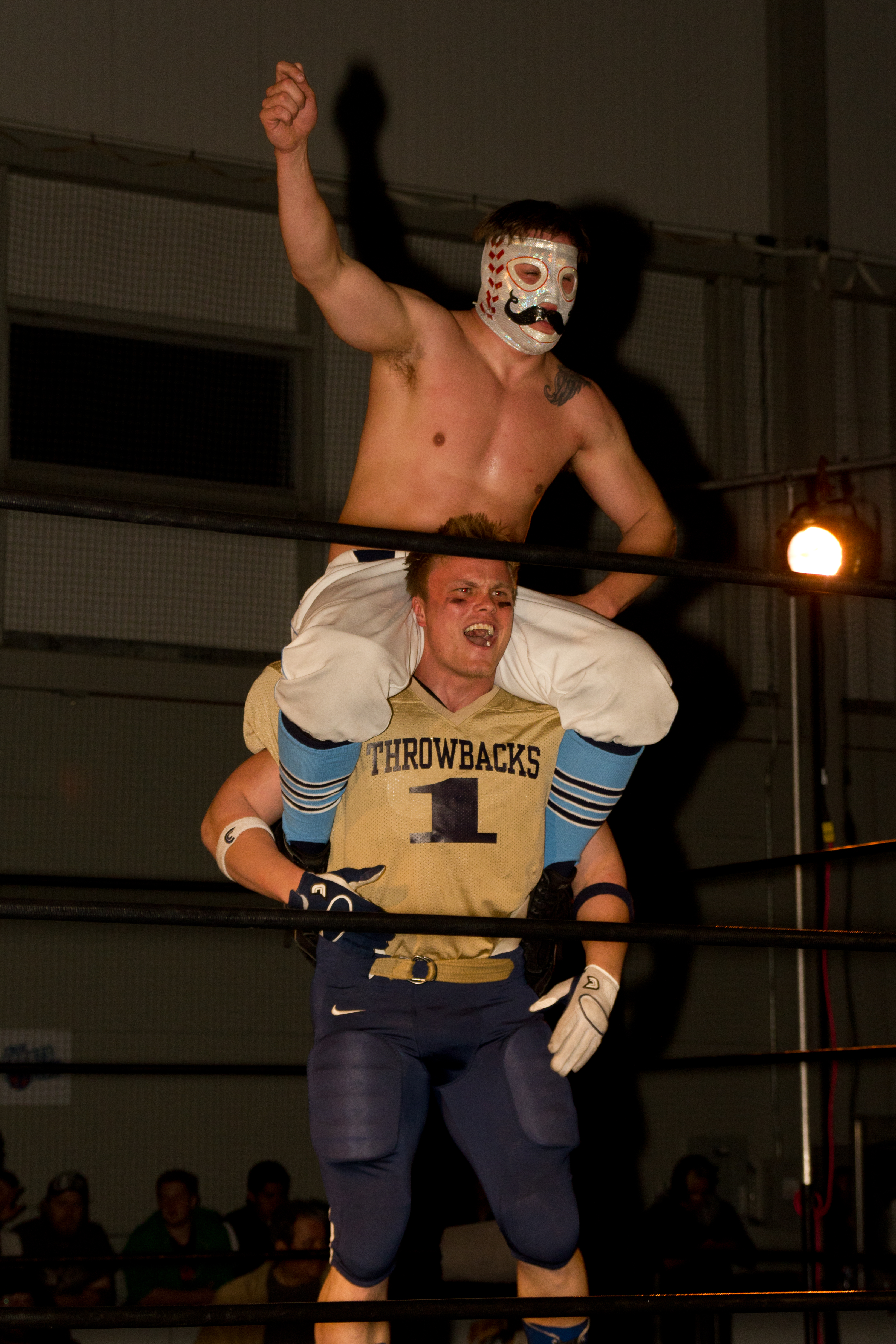 Professional wrestlers Dasher Hatfield and Mark Angelosetti at a CHIKARA event.